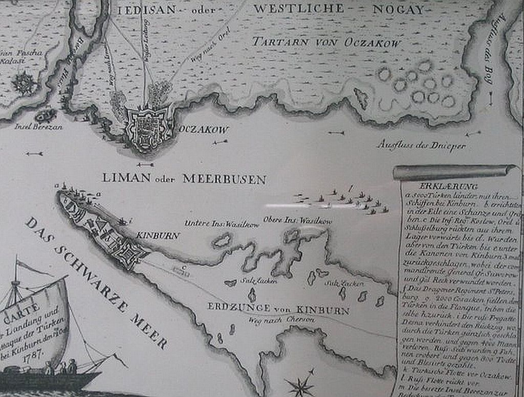 Özü (Oczakow, Ochakiv) castle near Odessa (Black Sea), 1787